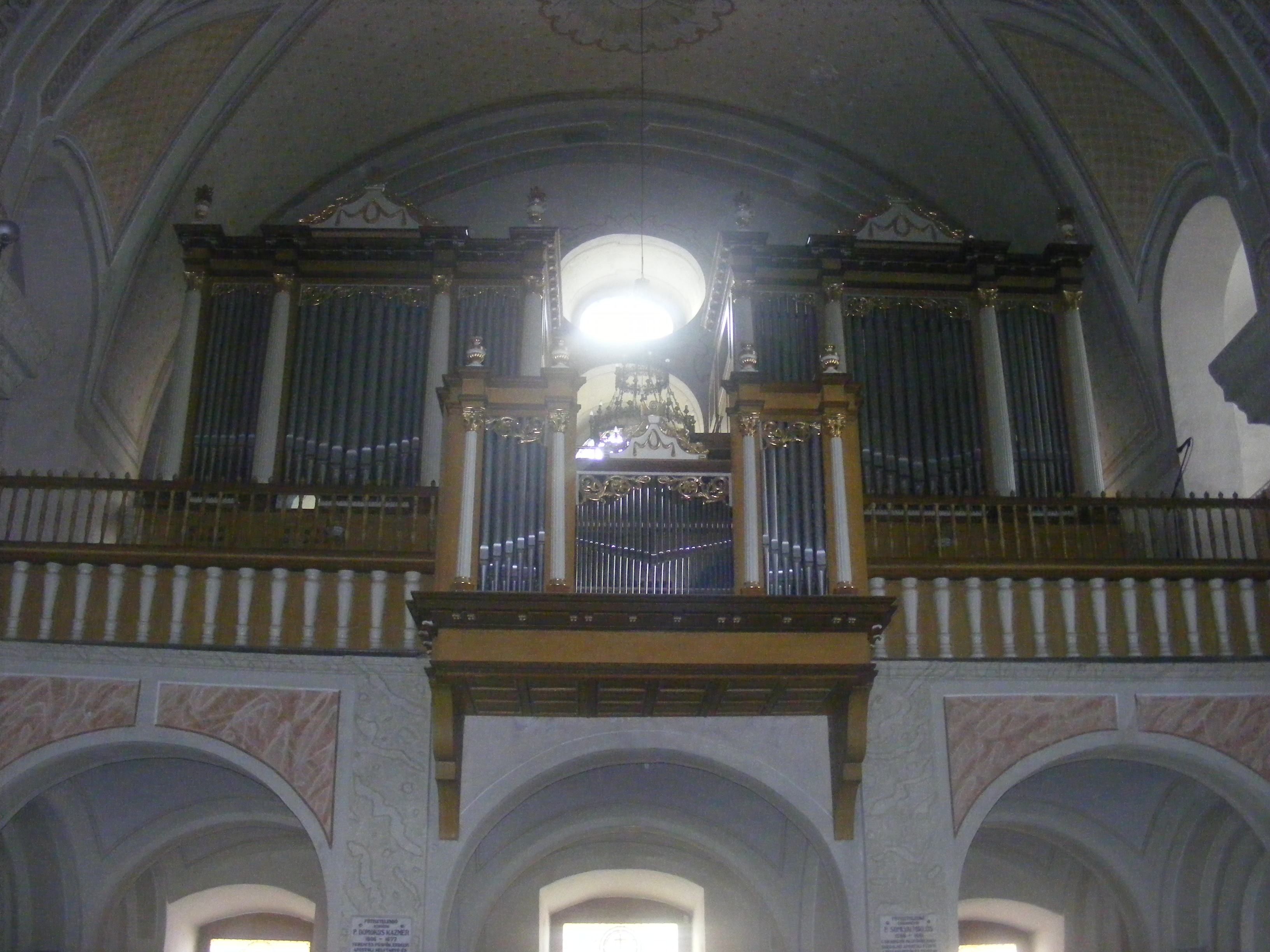 The romano-catholic church, Csíksomlyó